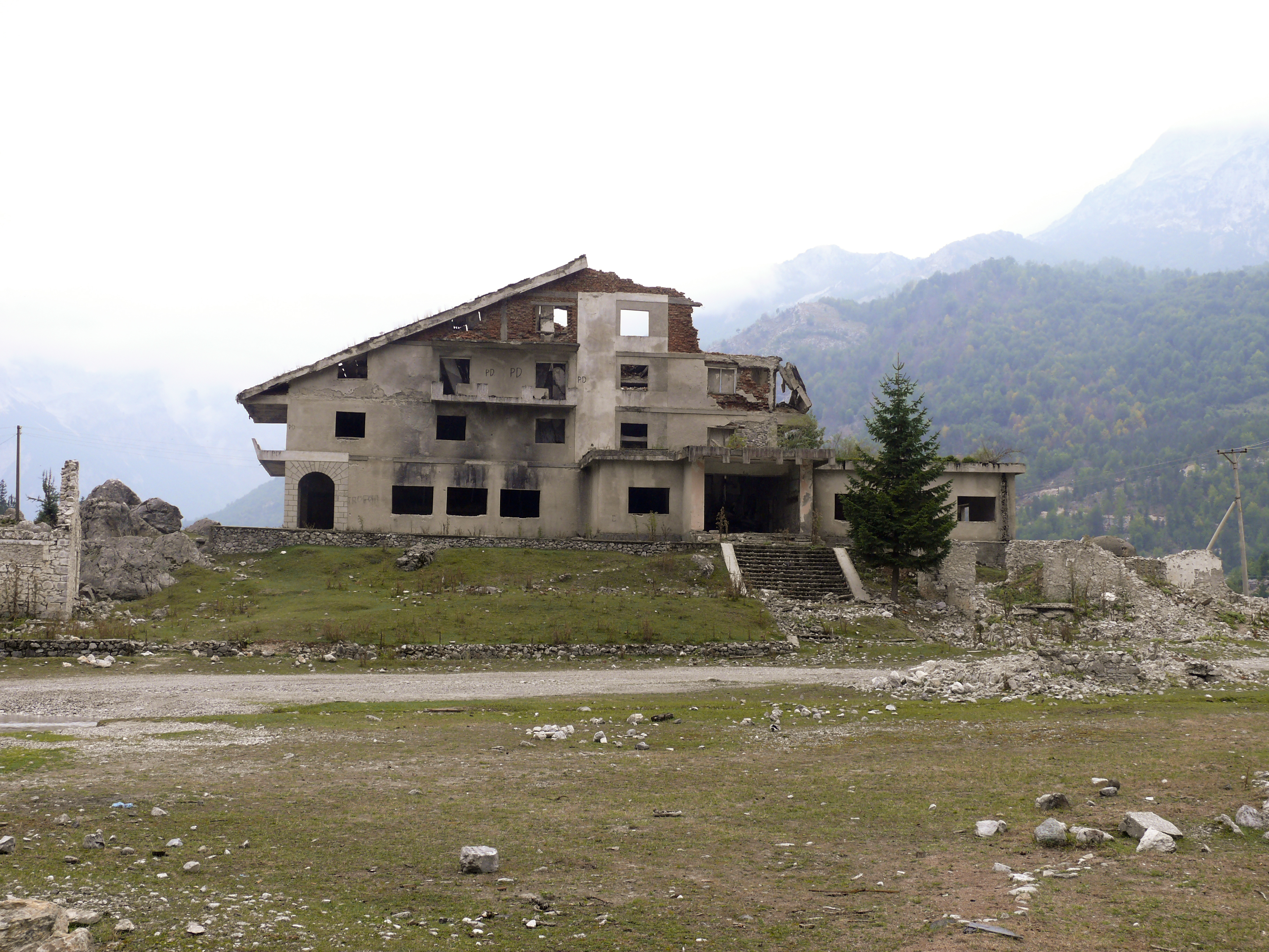 Destroyed hotel in Valbona